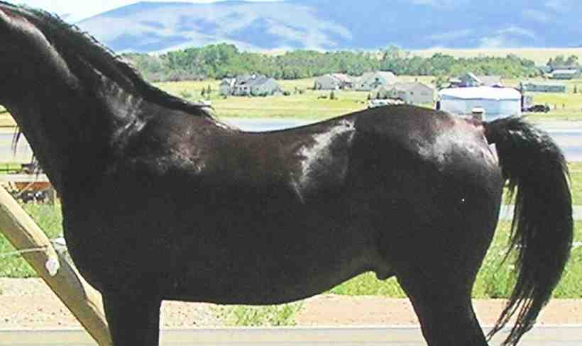 The back of a horse, also showing the entire vertebral external anatomy from neck to tail